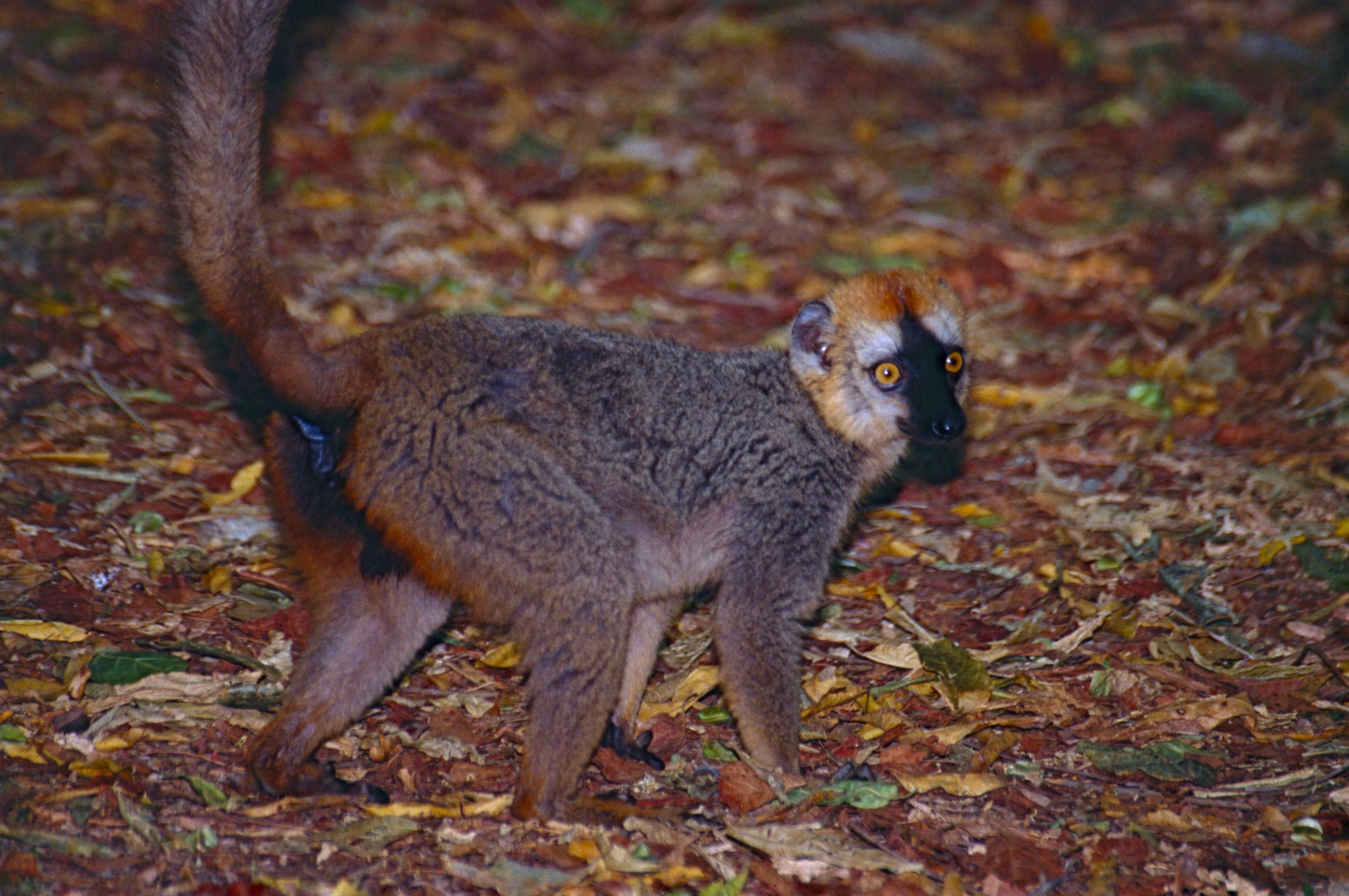 Réserve de Berenty, Amboasary Sud, MADAGASCAR Scanned Slide from 1998